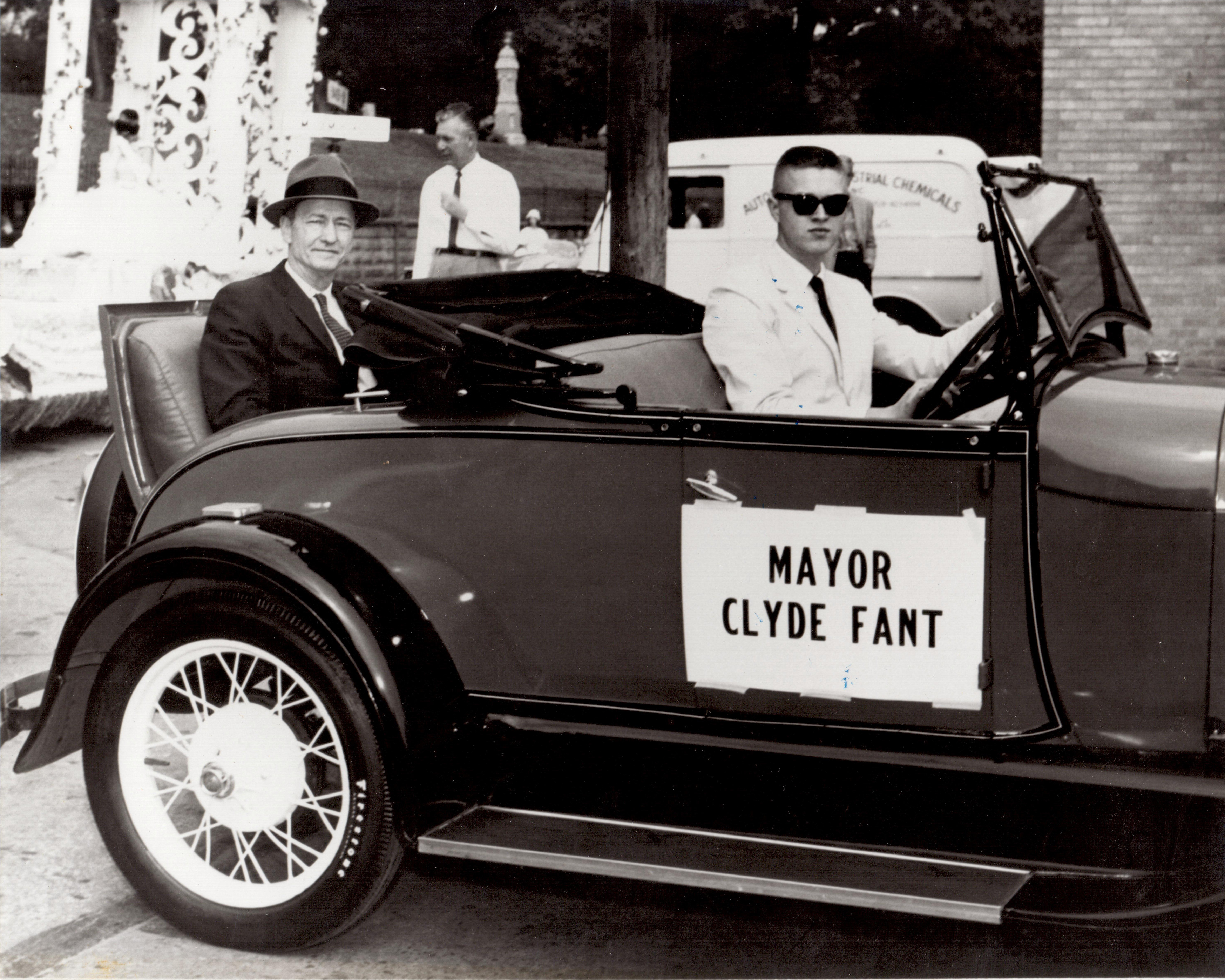 April 30,1962 Holiday in Dixie Parade, Mayor Clyde Fant sitting in a 1930 Ford Model "A" Rumble Seat Roadster waiting for the parade to begin. The driver James W Bowen.